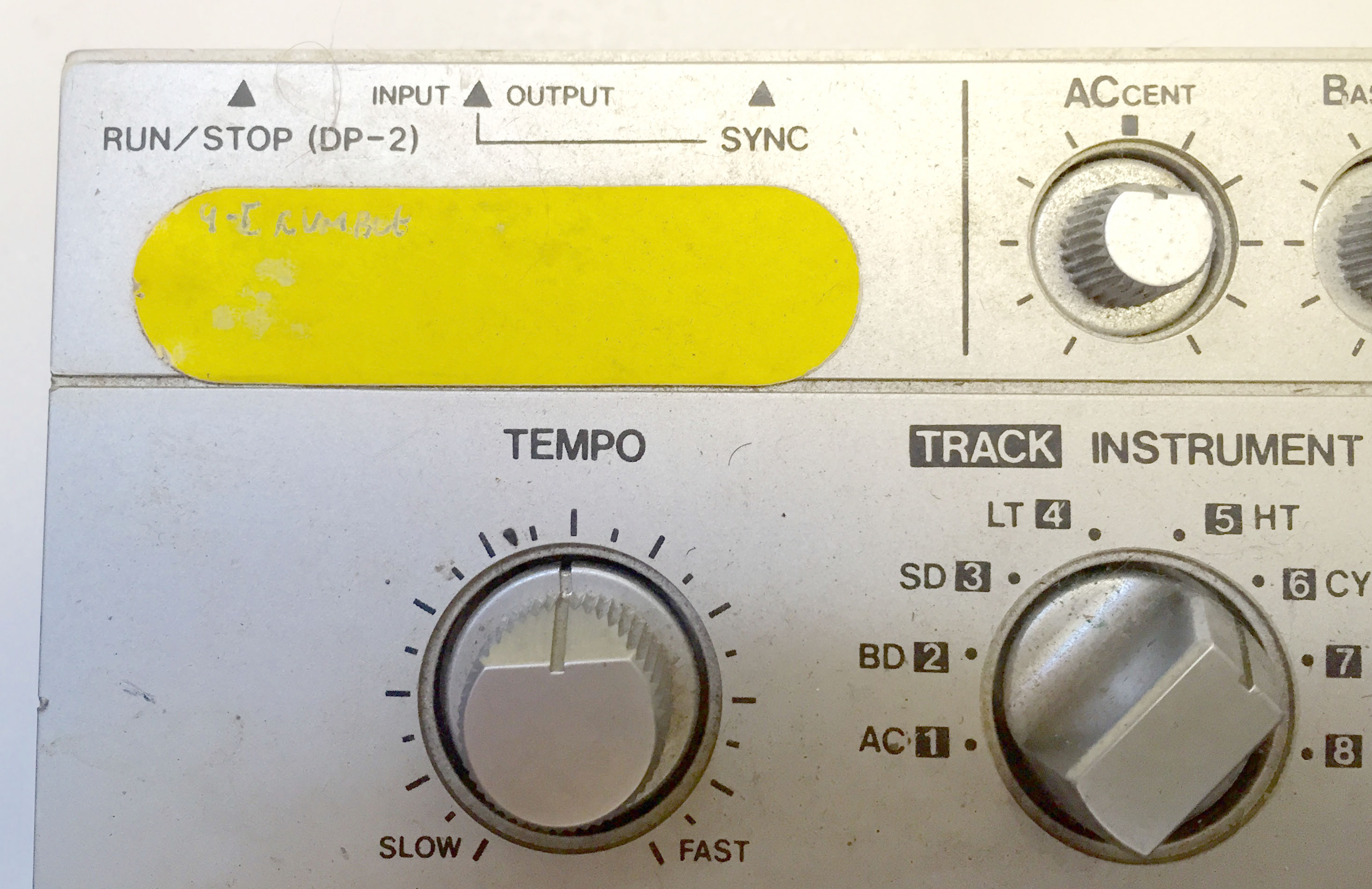 Roland TR-606 detail